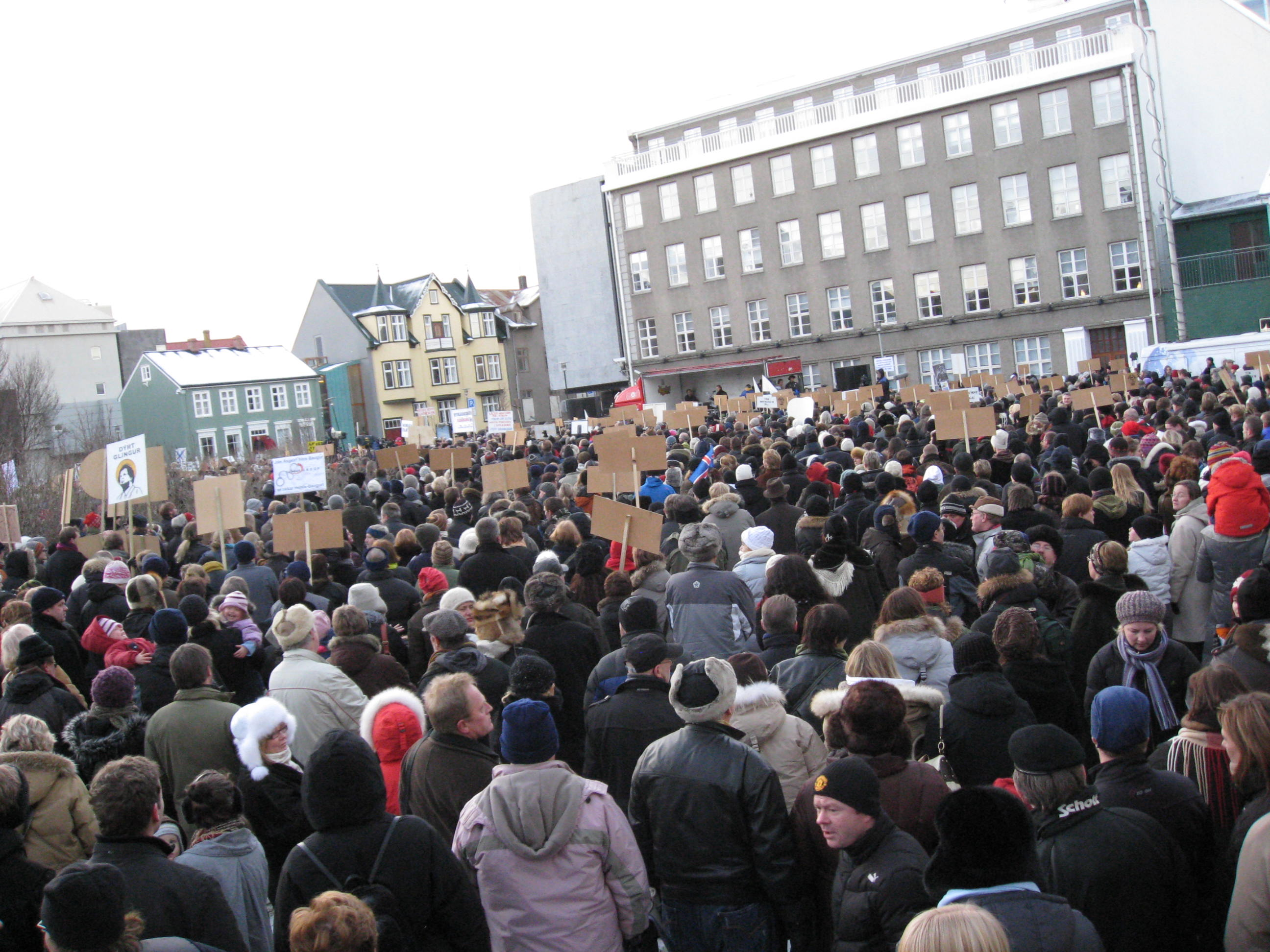 Protests on Austurvöllur because of the Icelandic economic crisis. Looking towards the stage over a part of the crowd.